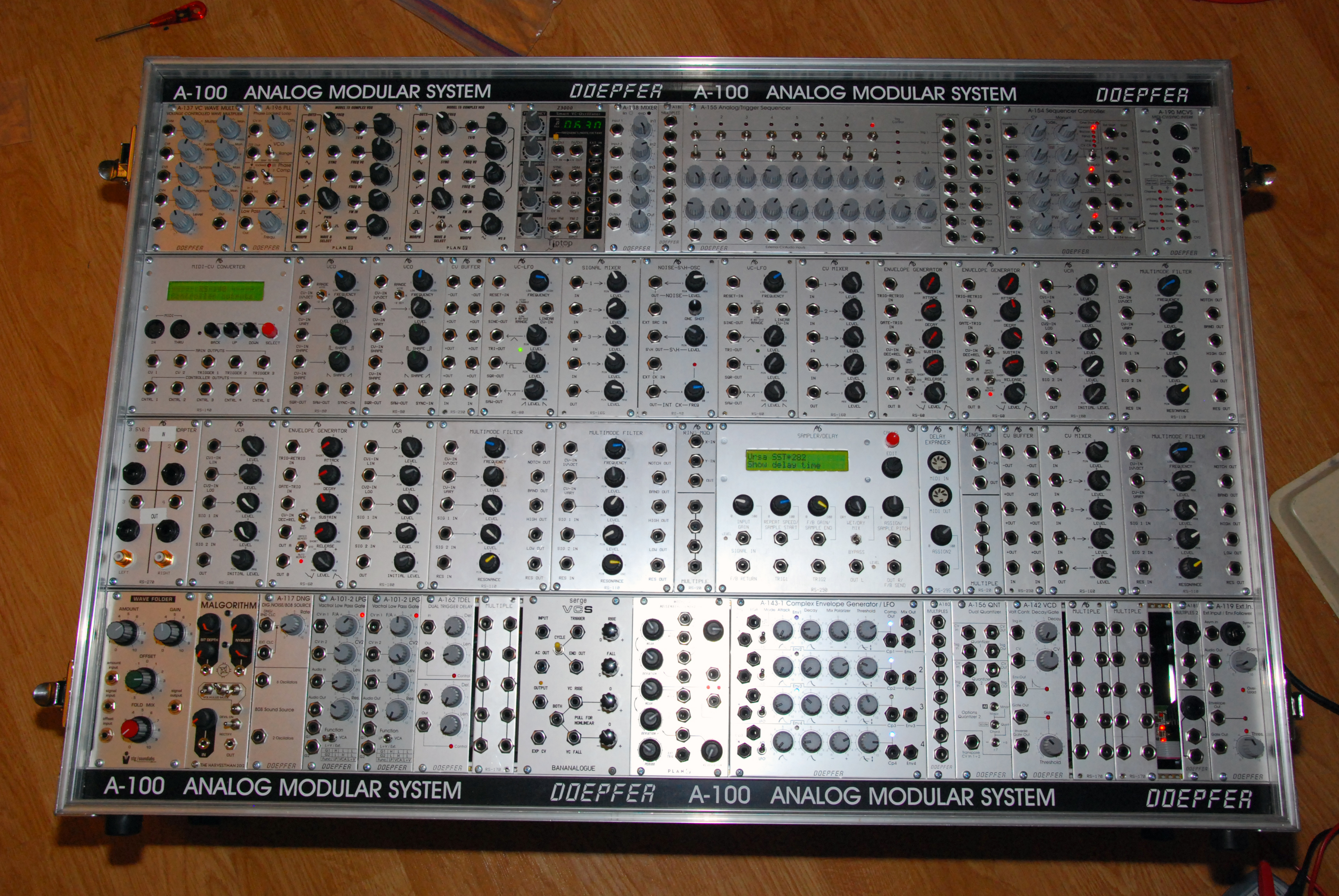 Modular's in Doepfer Double Monster case Done